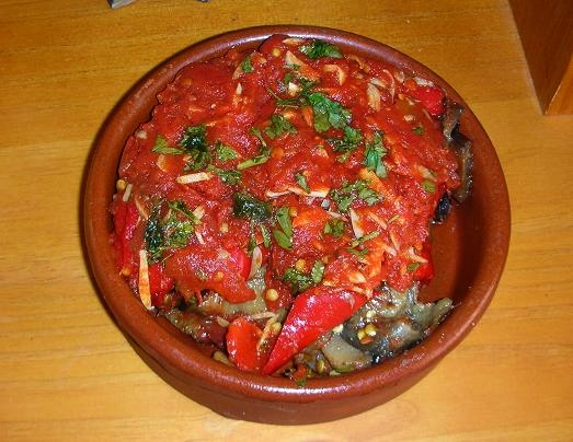 Tombet, vegetable dish from Mallorca